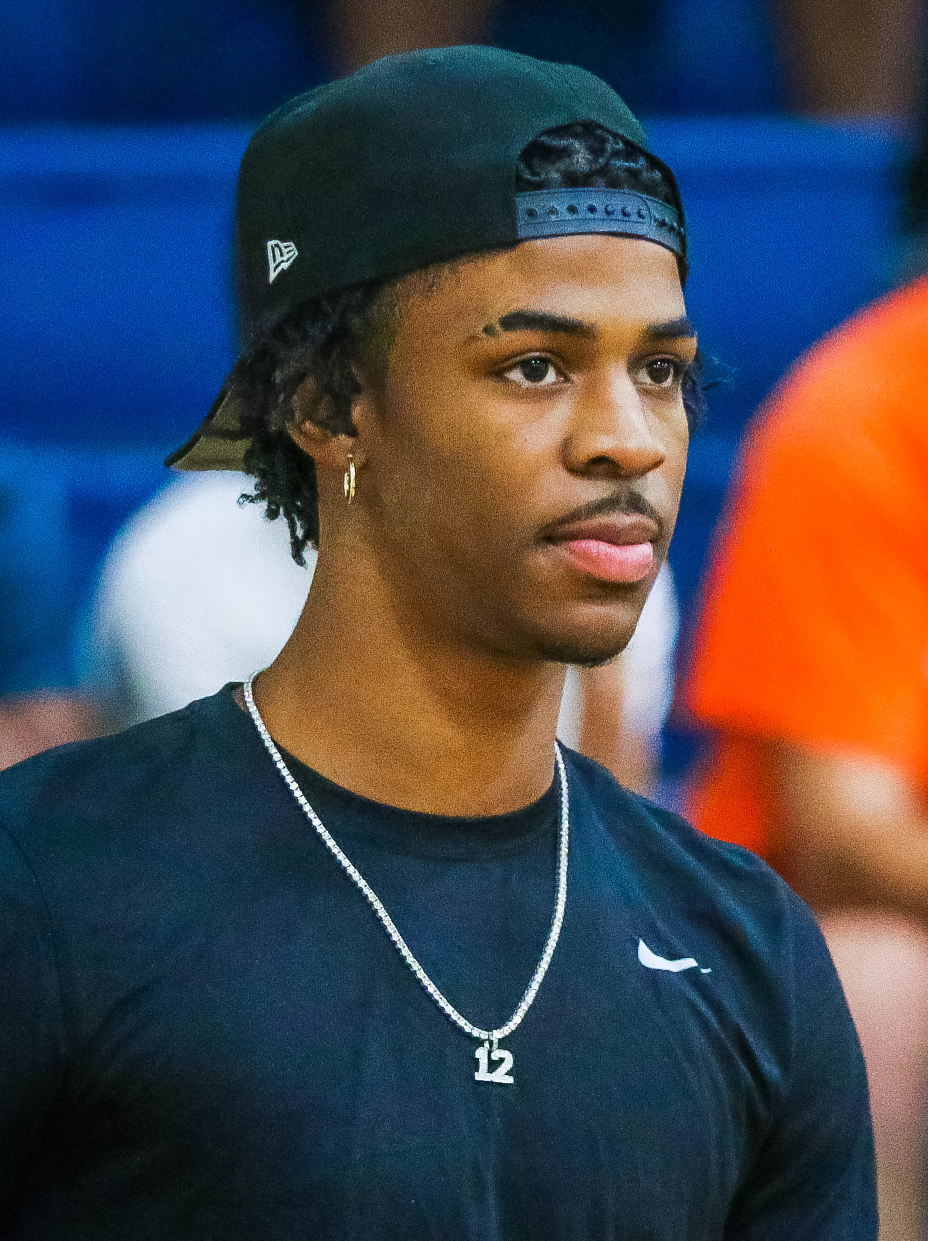 Photo by Katie Dugan